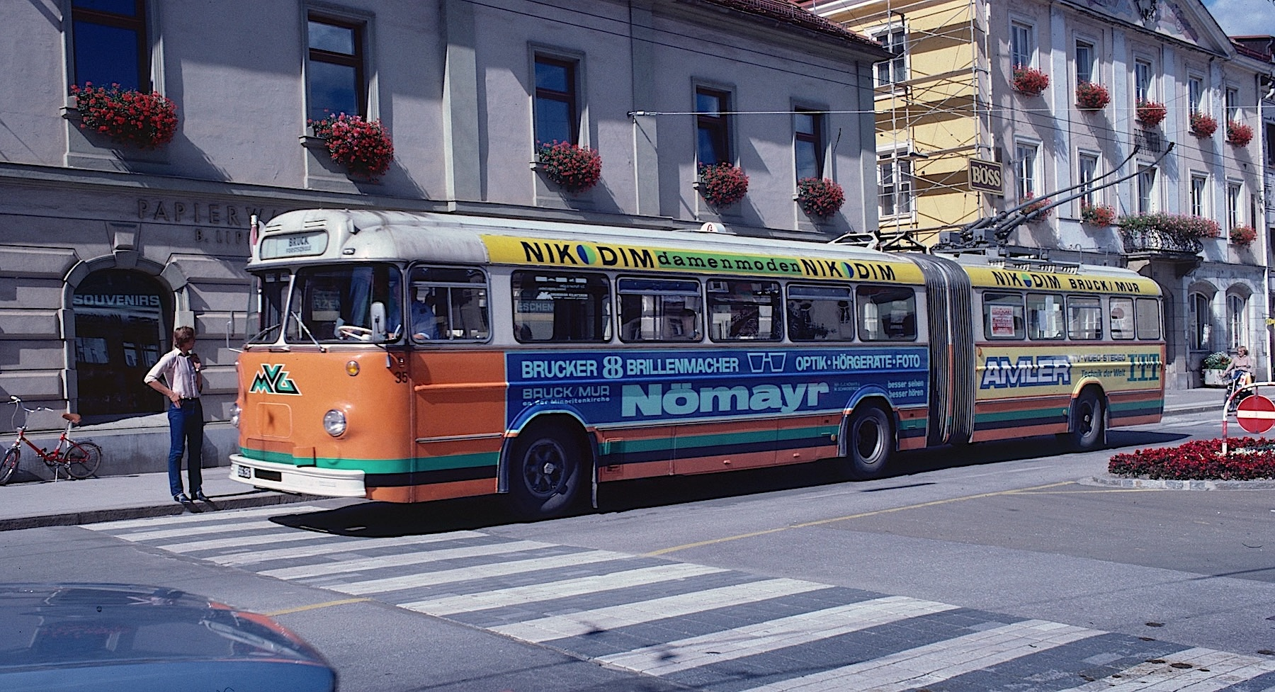 Trolleybus 35 of the Mürztaler Verkehrs-Gesellschaft system (based in Kapfenberg) westbound at the north end of Wallisch Platz, in Bruck an der Mur, in 1983. Number 35 was a 1961 Henschel HS 160 OSL that MVG acquired secondhand in 1974. It was previously Aachen 35, and was originally (until 1969) Bielefeld 518.